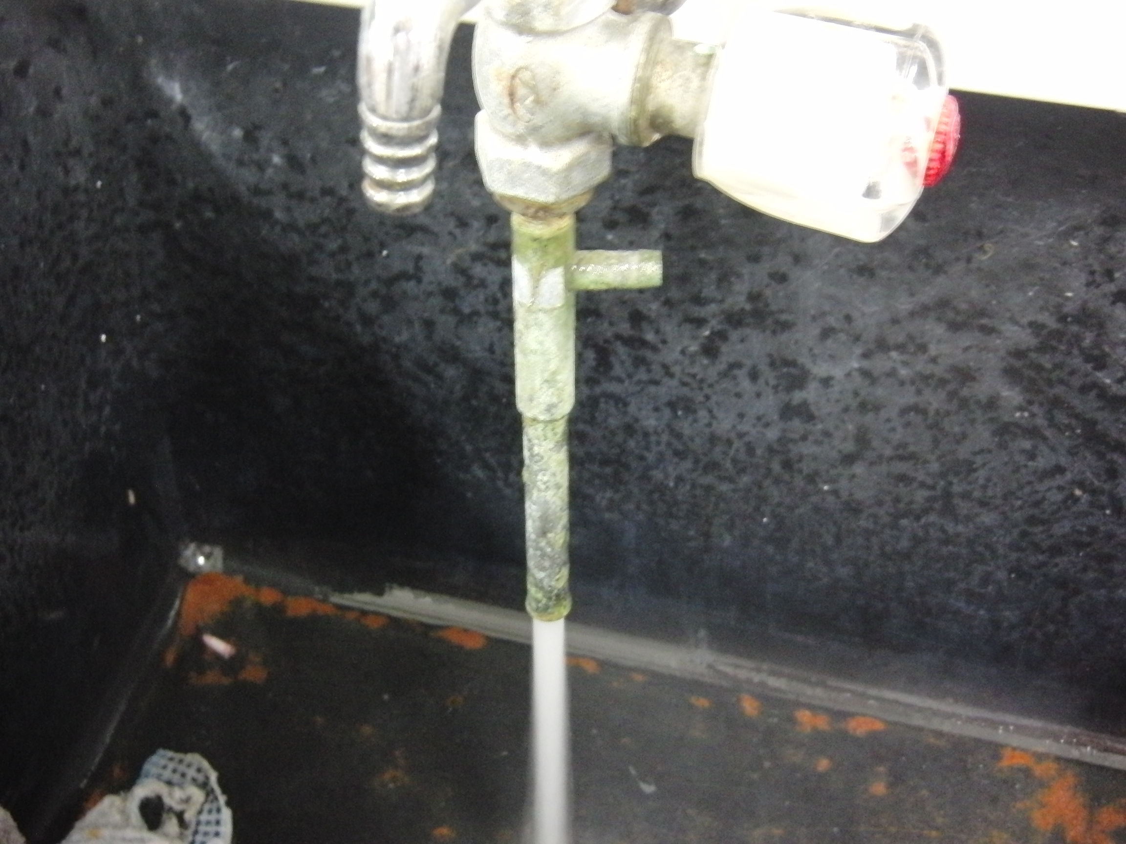 Aspirator sample